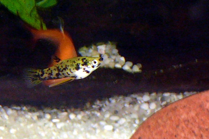 Speckled mosquitofish (Phalloceros caudimaculatus)